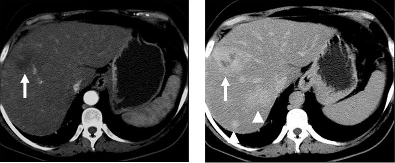 Arterial and portal venous phase CT of cholangiocarcinoma. For context, see Computed tomography of the abdomen and pelvis.